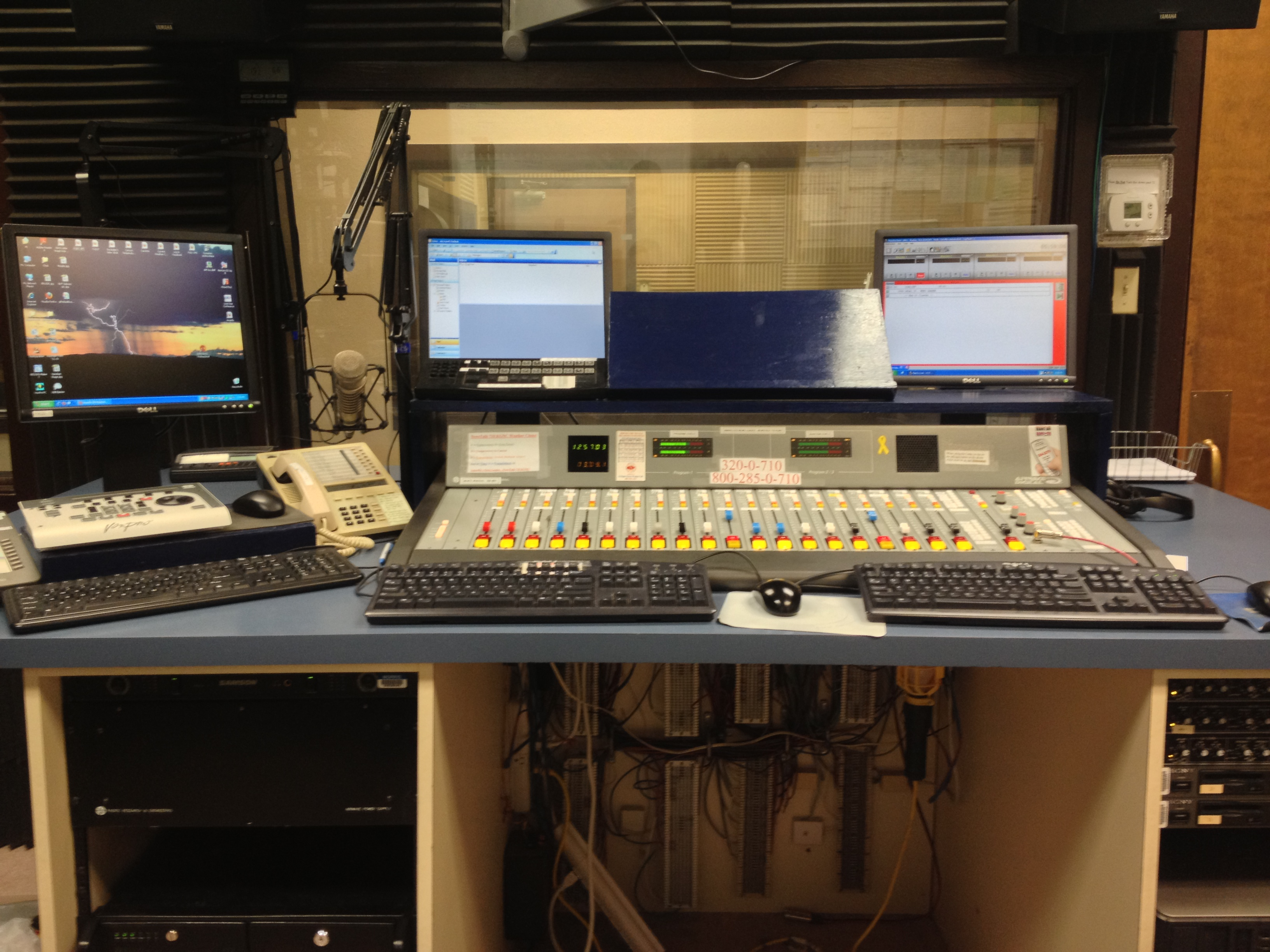 This file shows the control board of KGNC_AM